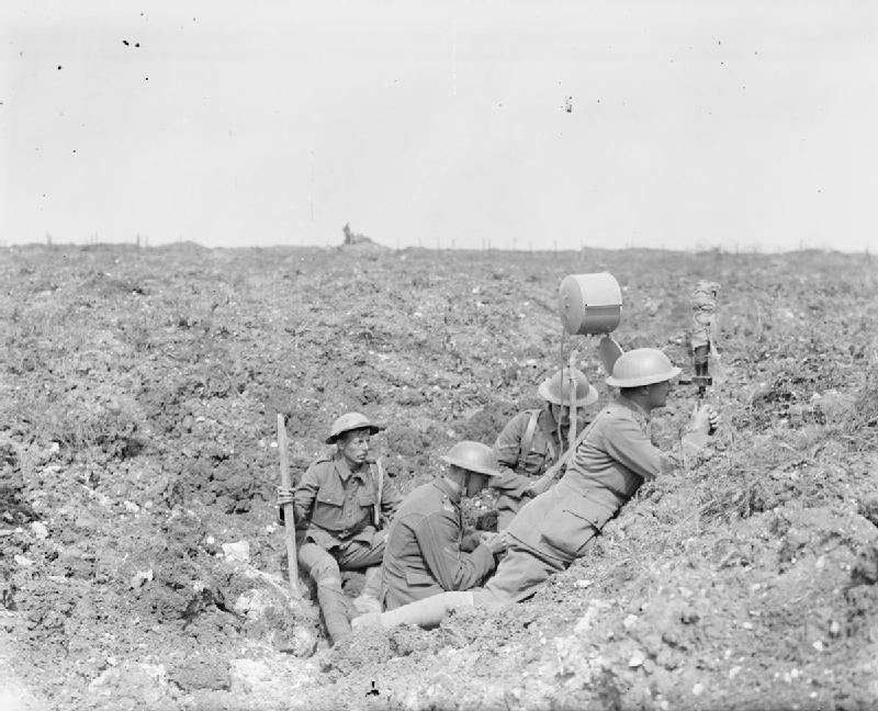 British R.G.A. (Royal Garrison Artillery) using a daylight signalling lamp in a shell hole in front of Fricourt Wood, September 1916.